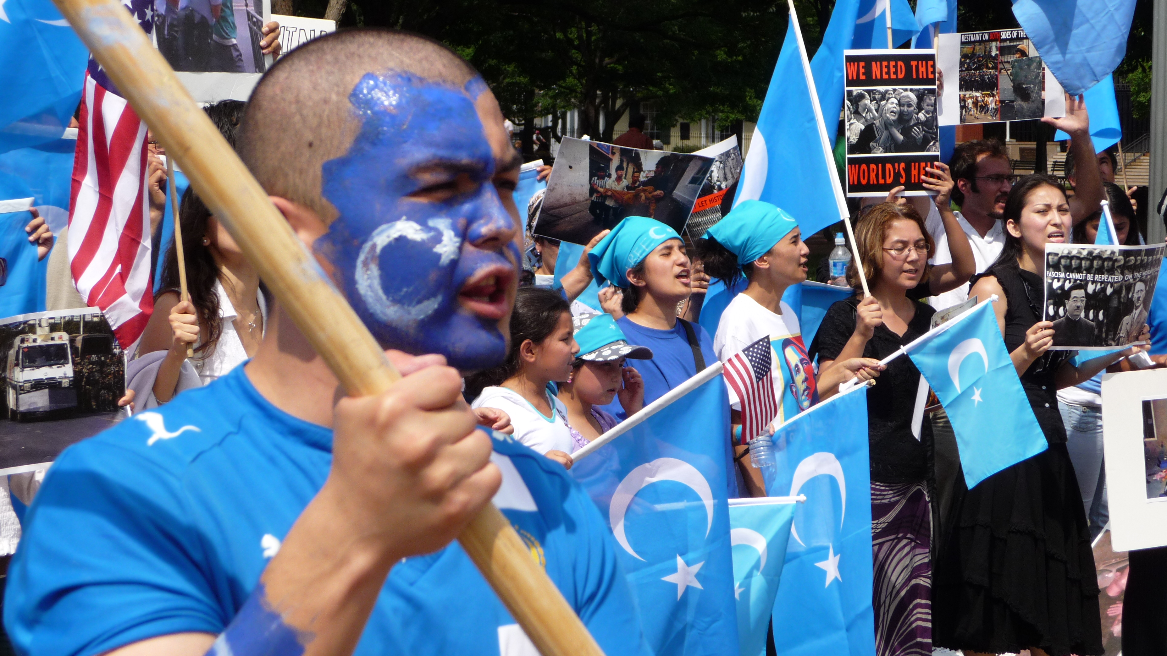 description from Flickr page: "Anti-China protest outside White House "Protest in Washington, D.C., after the July 2009 Urumqi riots